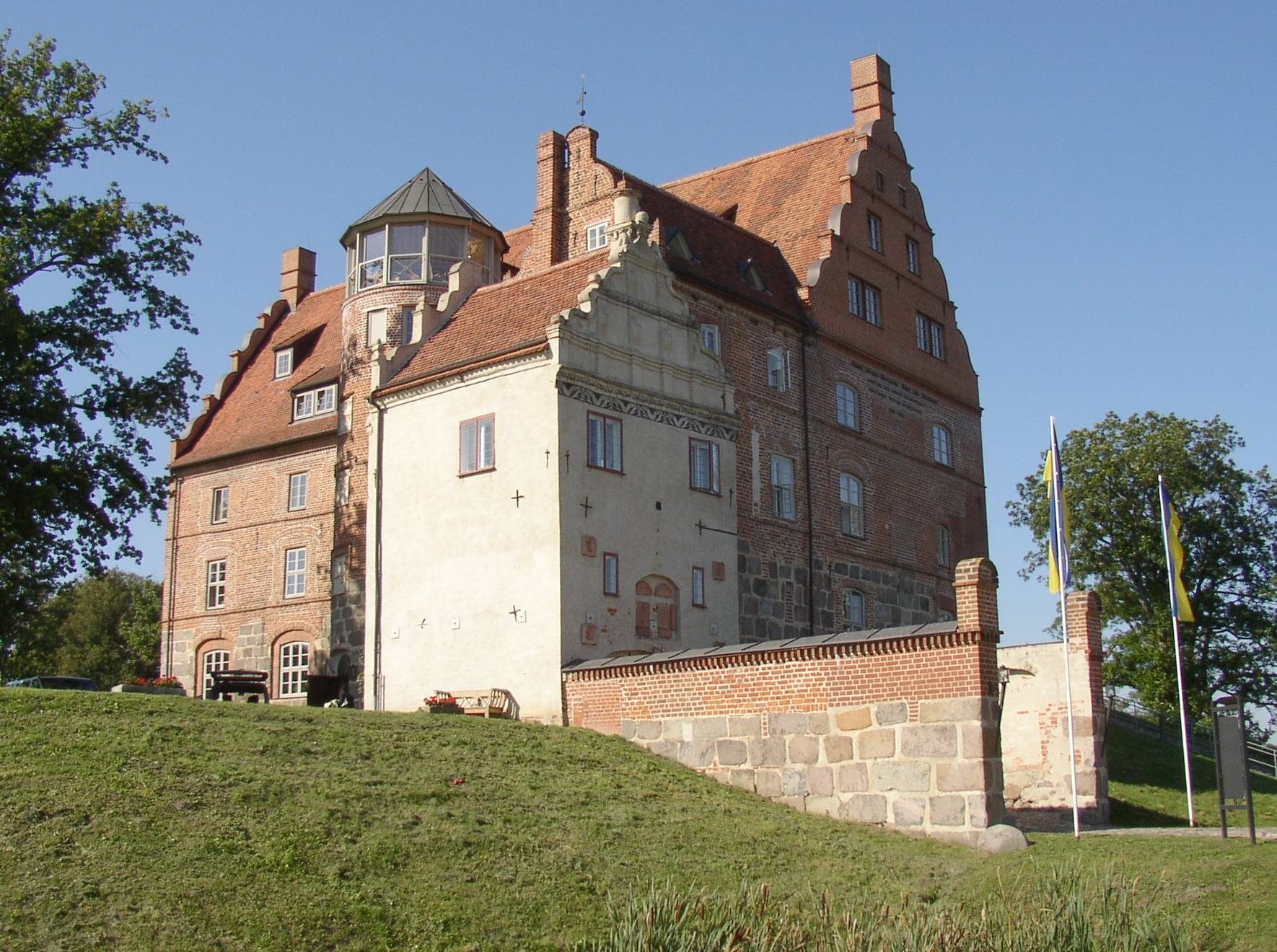 Castle in Schwinkendorf-Ulrichshusen in Mecklenburg-Western Pomerania, Germany